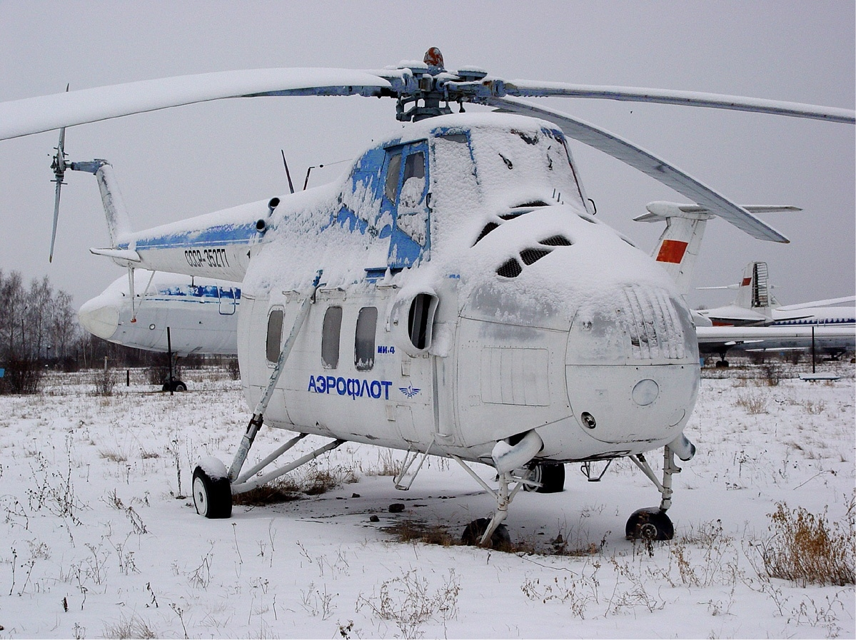 A Mil Mi-4 of Aeroflot